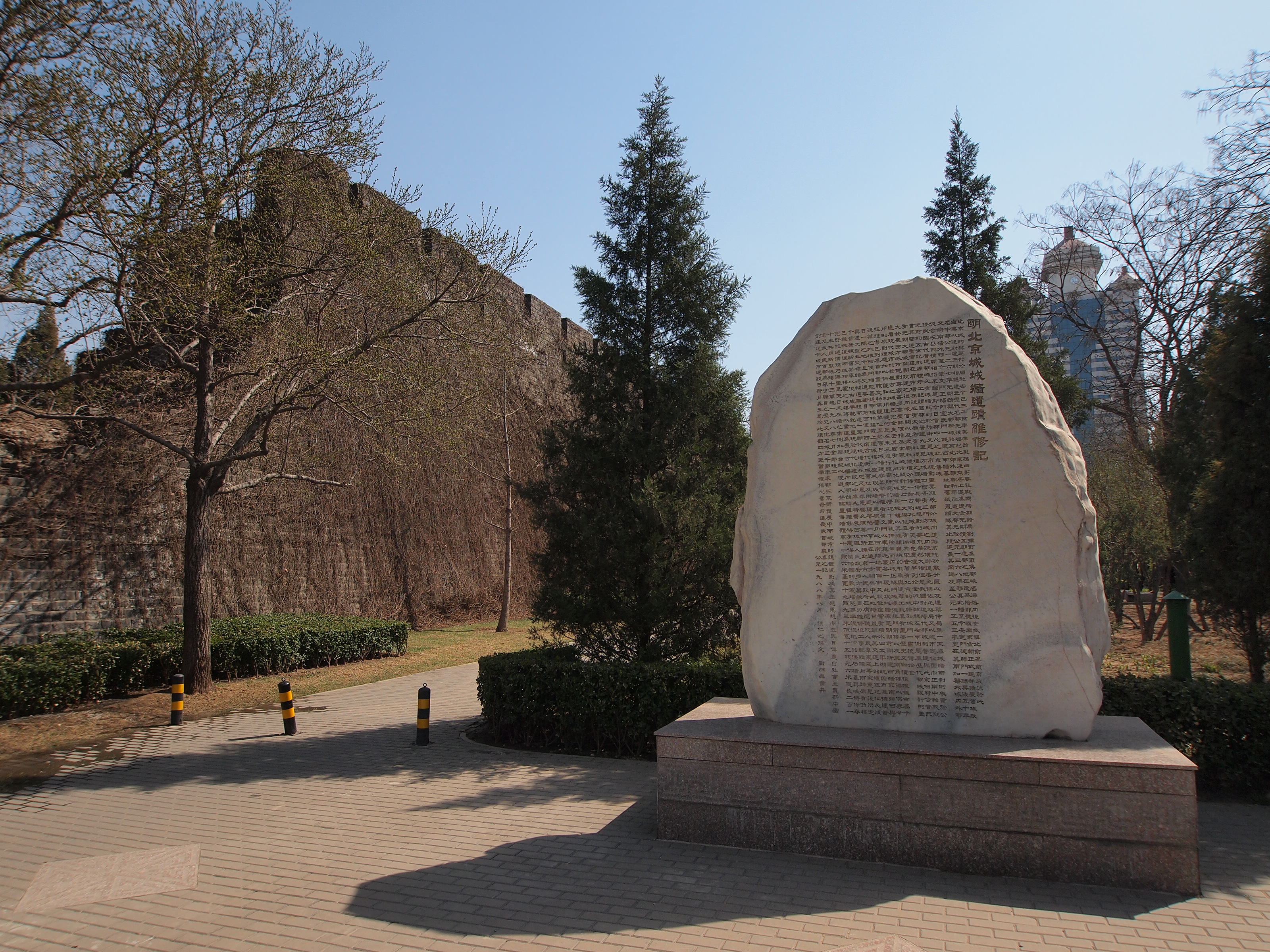 明北京城城墙遗迹 - Ming Dynasty Beijing Wall Relics - 2012.04